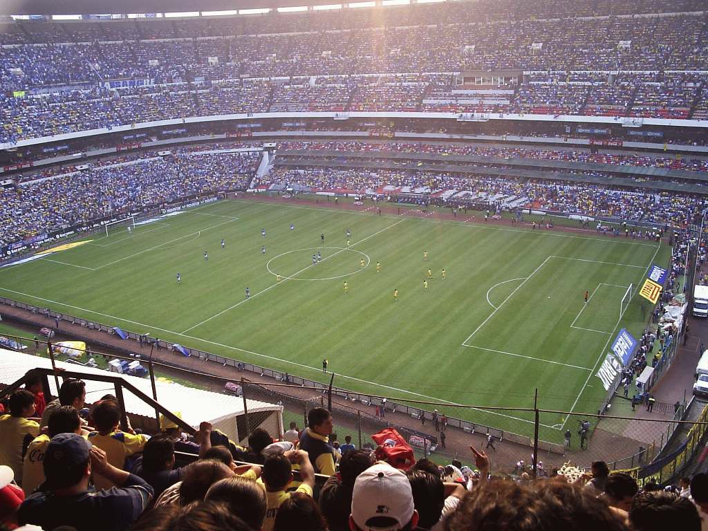 Azteca Stadium, in Mexico City. This is a PNG version of File:Azteca_008.gif